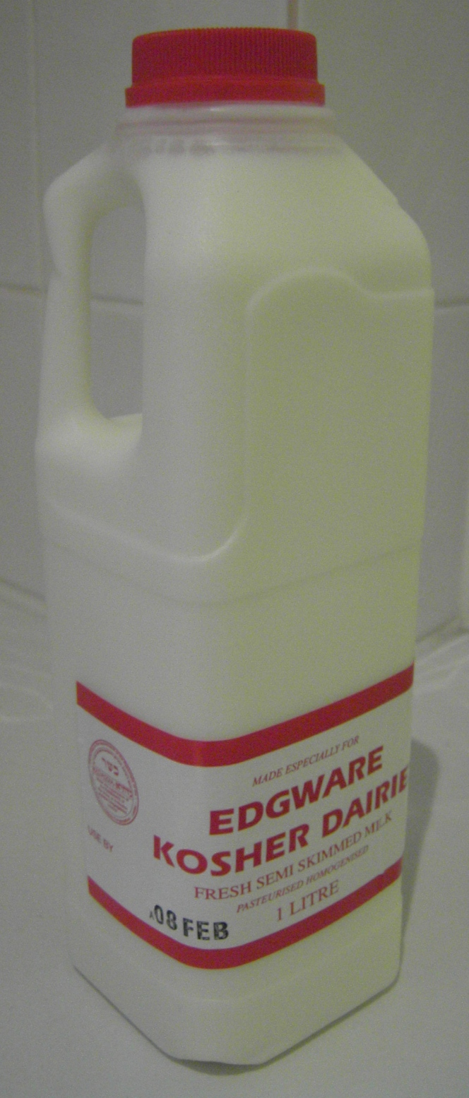 A bottle of kosher milk